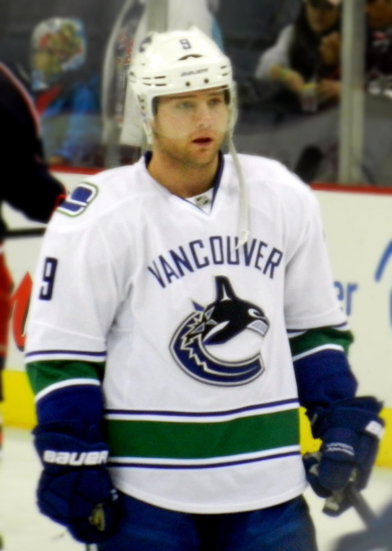 Cody Hodgson playing for the Vancouver Canucks during warm-up of a game vs. the Columbus Blue Jackets in the 2011-12 season. Vancouver lost the game 2-1 in a shoot-out